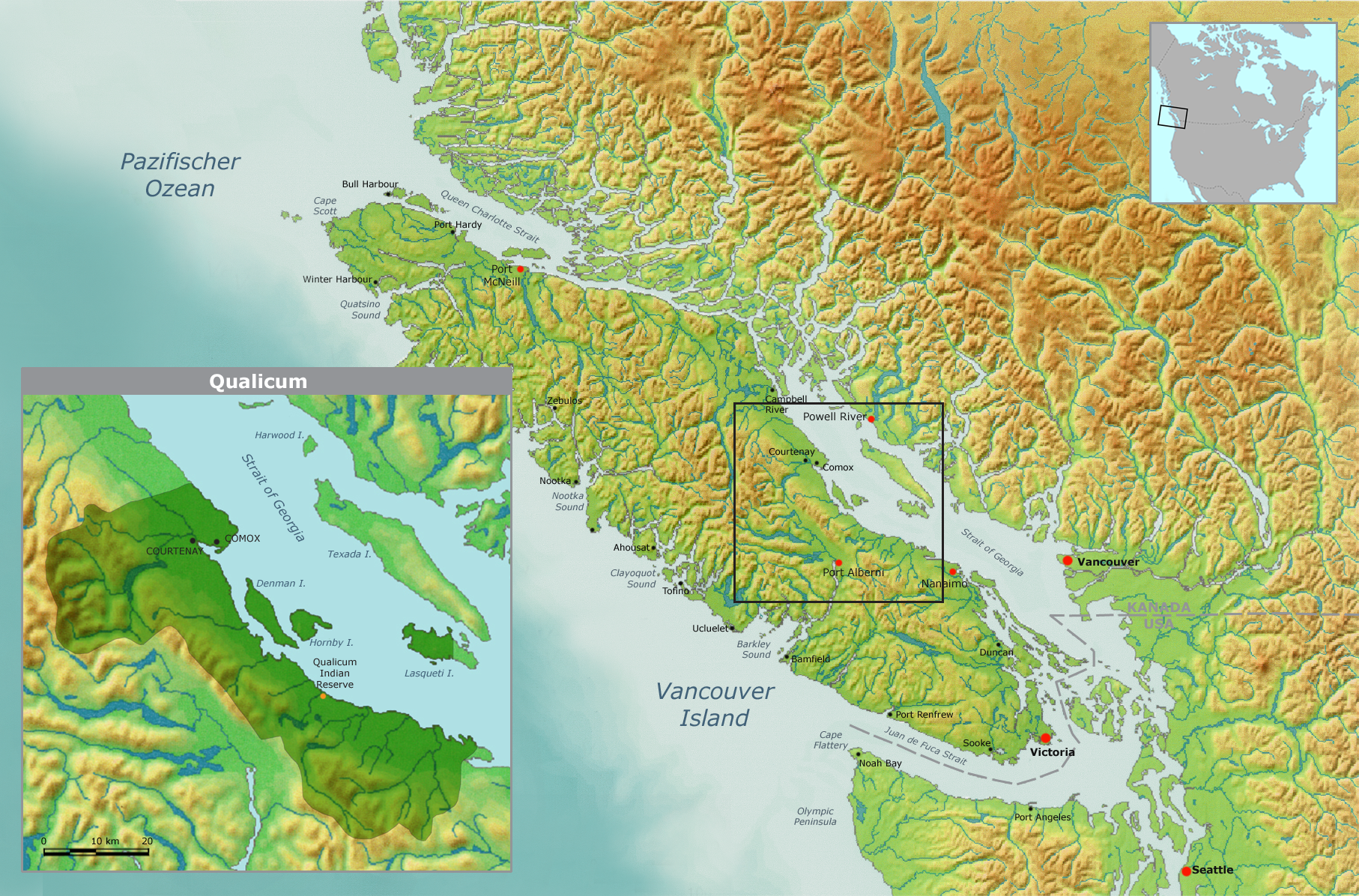 Map of traditional Qualicum tribal territory.